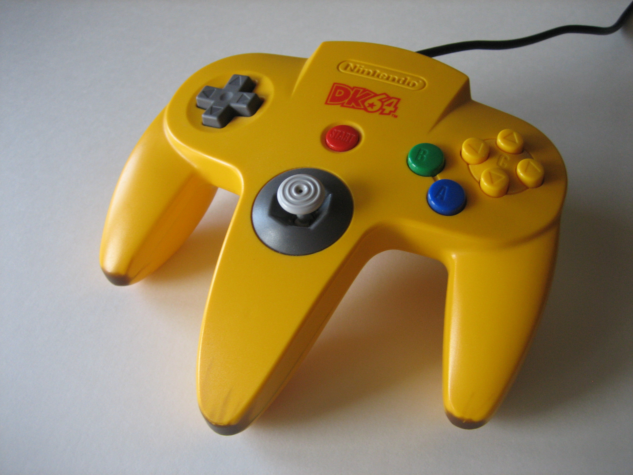 N64 controller that came with a Nintendo Power subscription in North America years ago.